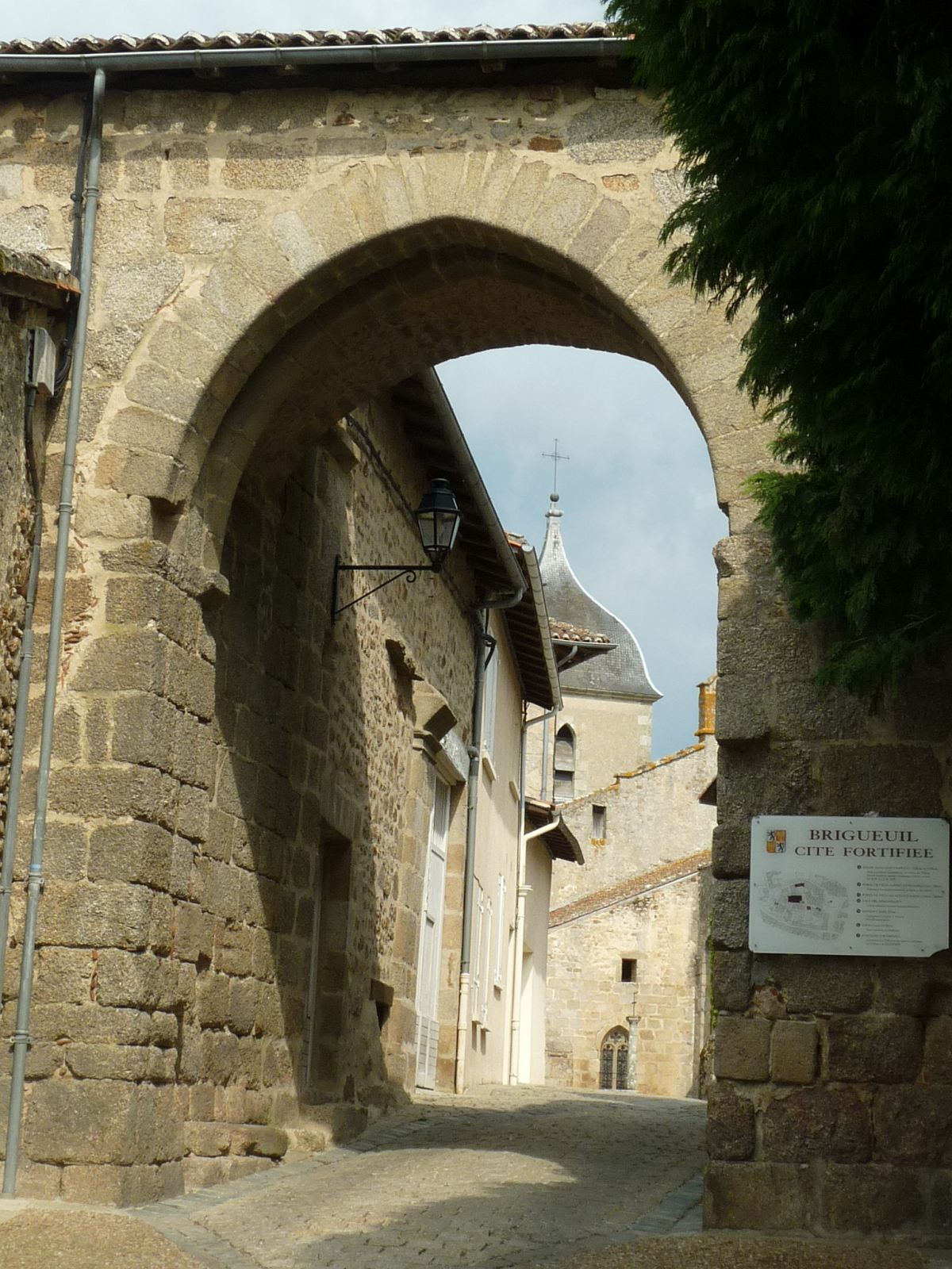 village gate at Brigueuil, Charente, SW France